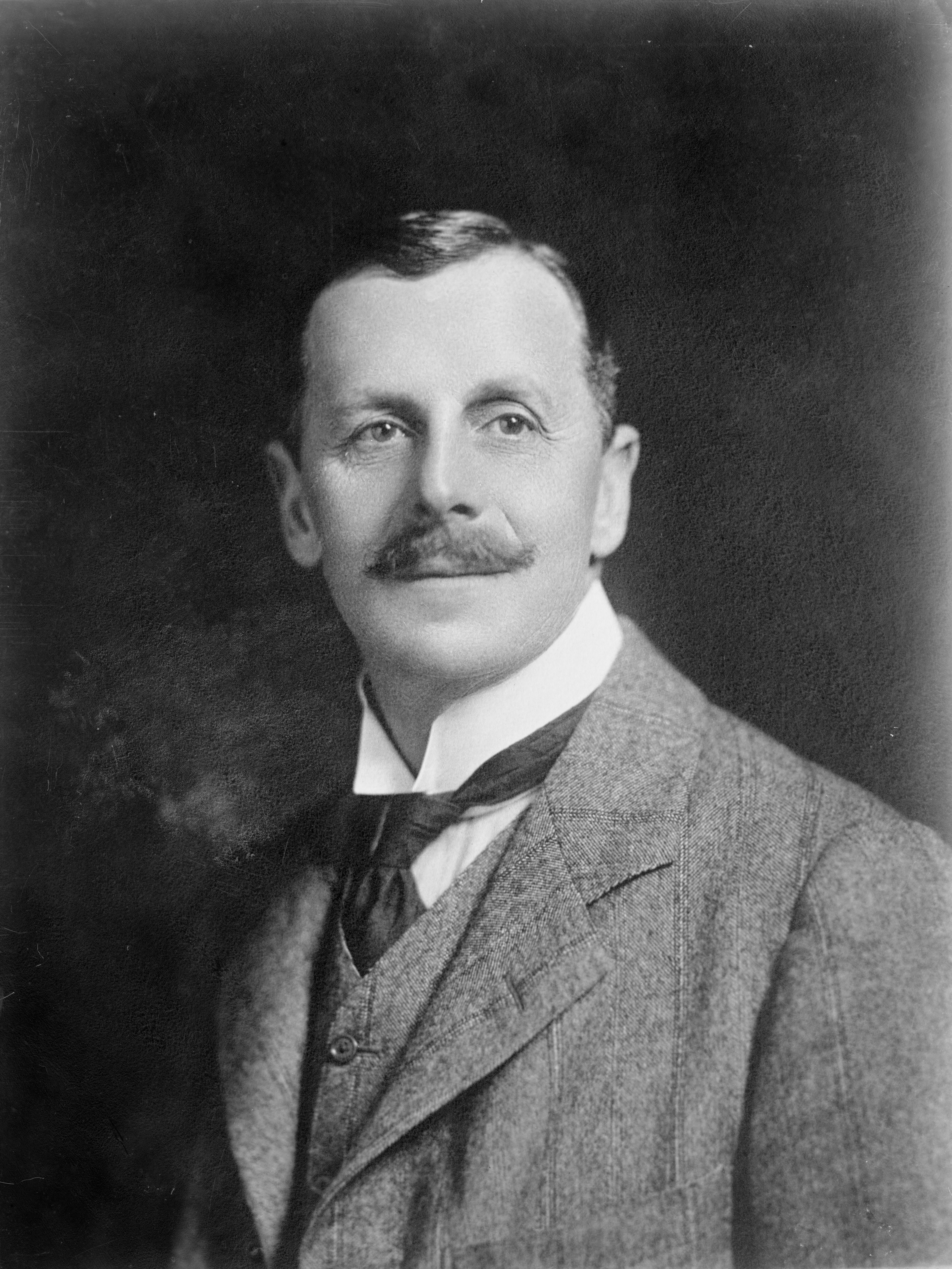 Robert Heaton Rhodes, photographed in 1915 by S P Andrew.